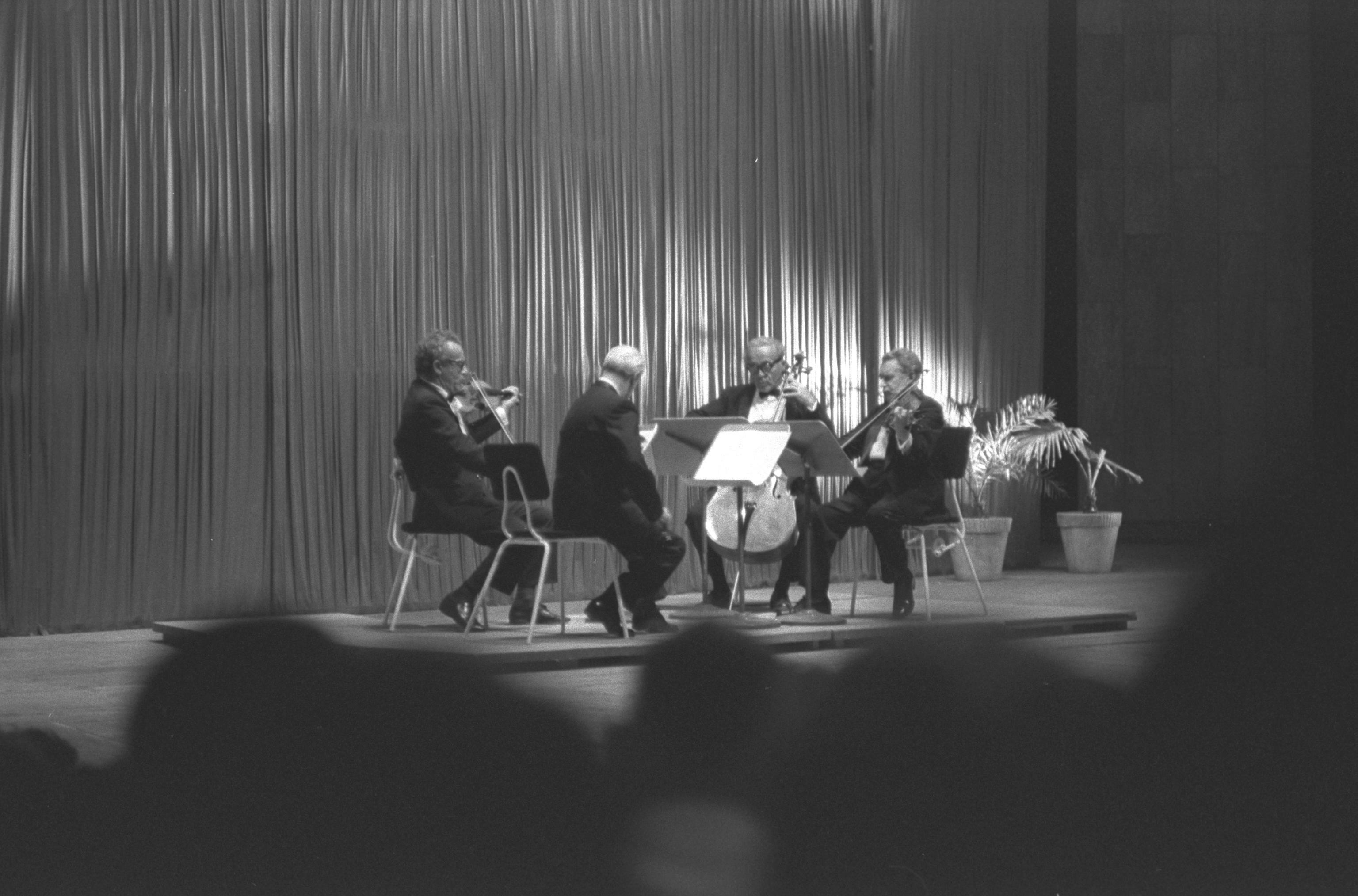 THE BUDAPEST STRING QUARTET PLAYING AT THE MANN AUDITORIUM DURING THE FIRST ISRAEL INTERNATIONAL MUSIC FESTIVAL